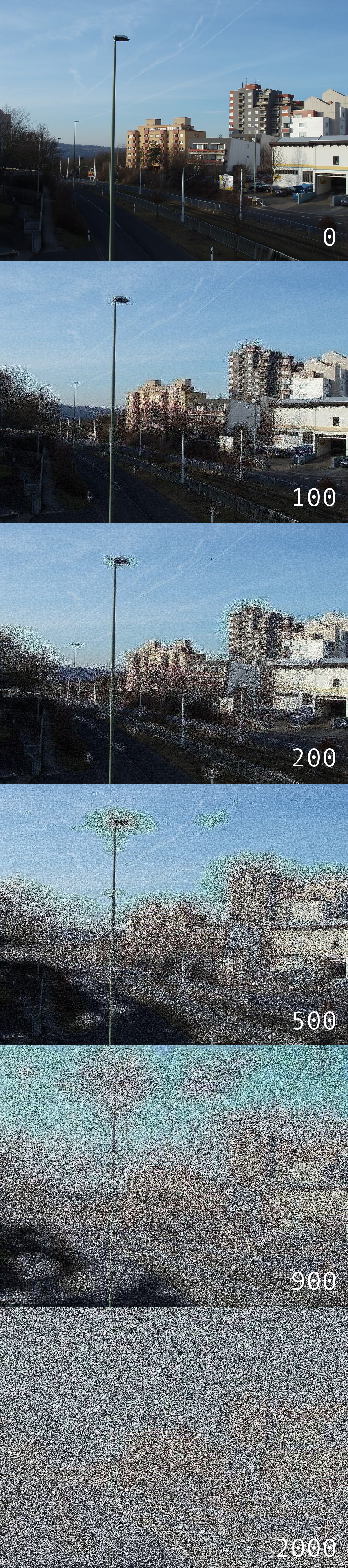 Showing JPEG compression loss when rotating a image 90 degrees iteratively with side lengths not factors of 8. Digital generation loss induced by rotating a JPEG image 90 degrees (from top to bottom) 0, 100, 200, 500, 900, and 2000 times (without using lossless tools).